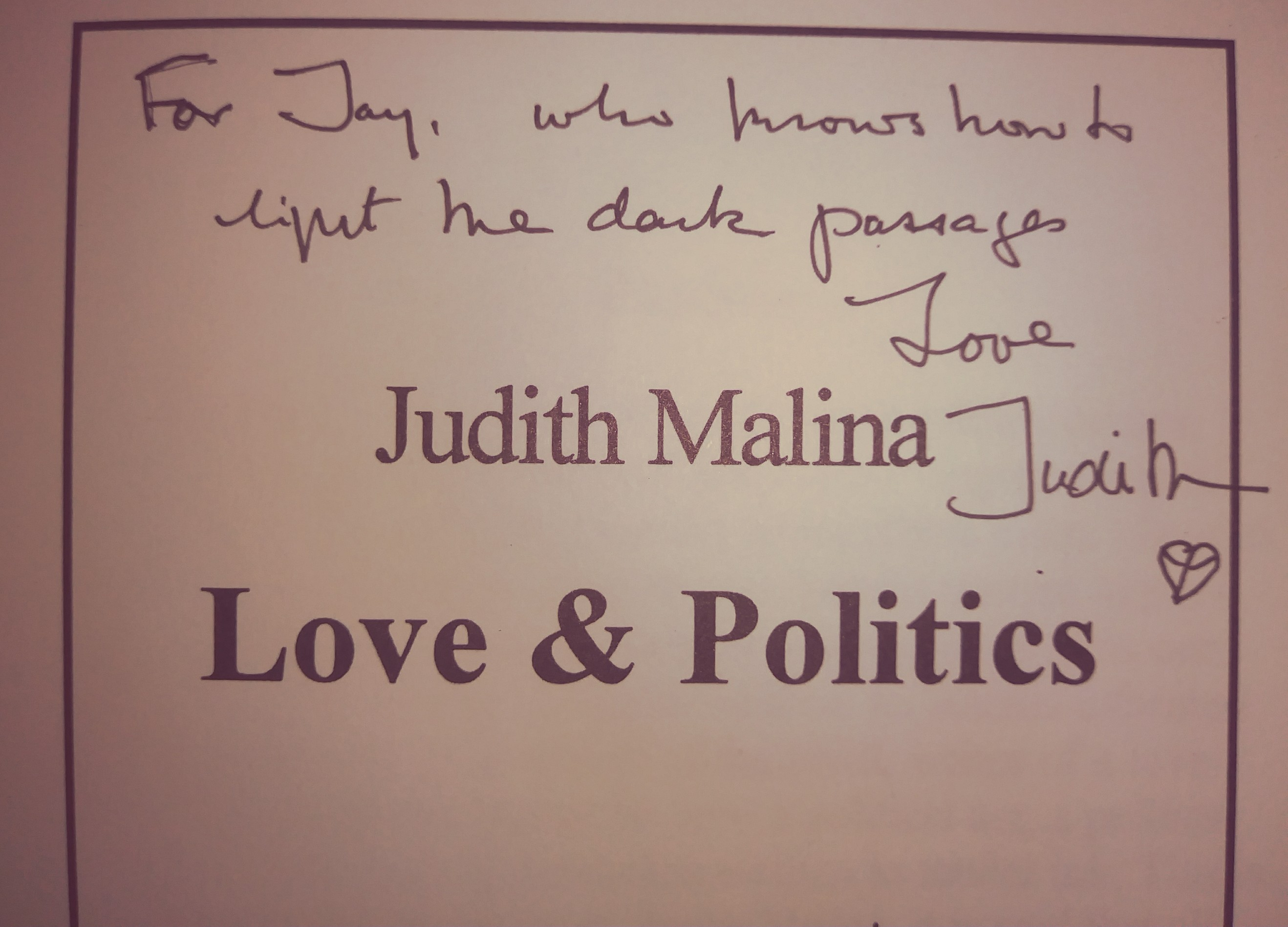 Judith Malina's book of poems "Love & Politics" top of title page with inscription to Jay Dobkin, her dramaturge at The Living Theatre: "For Jay, who knows how to light the dark passages Love Judith"